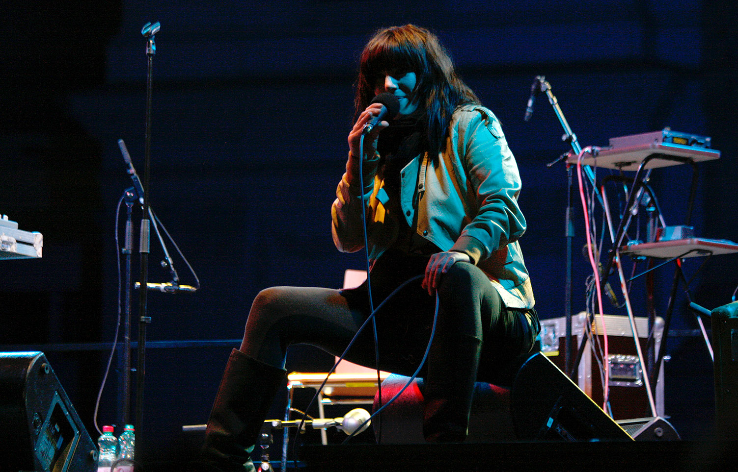 Gustav, Popfest 2011 in Vienna.